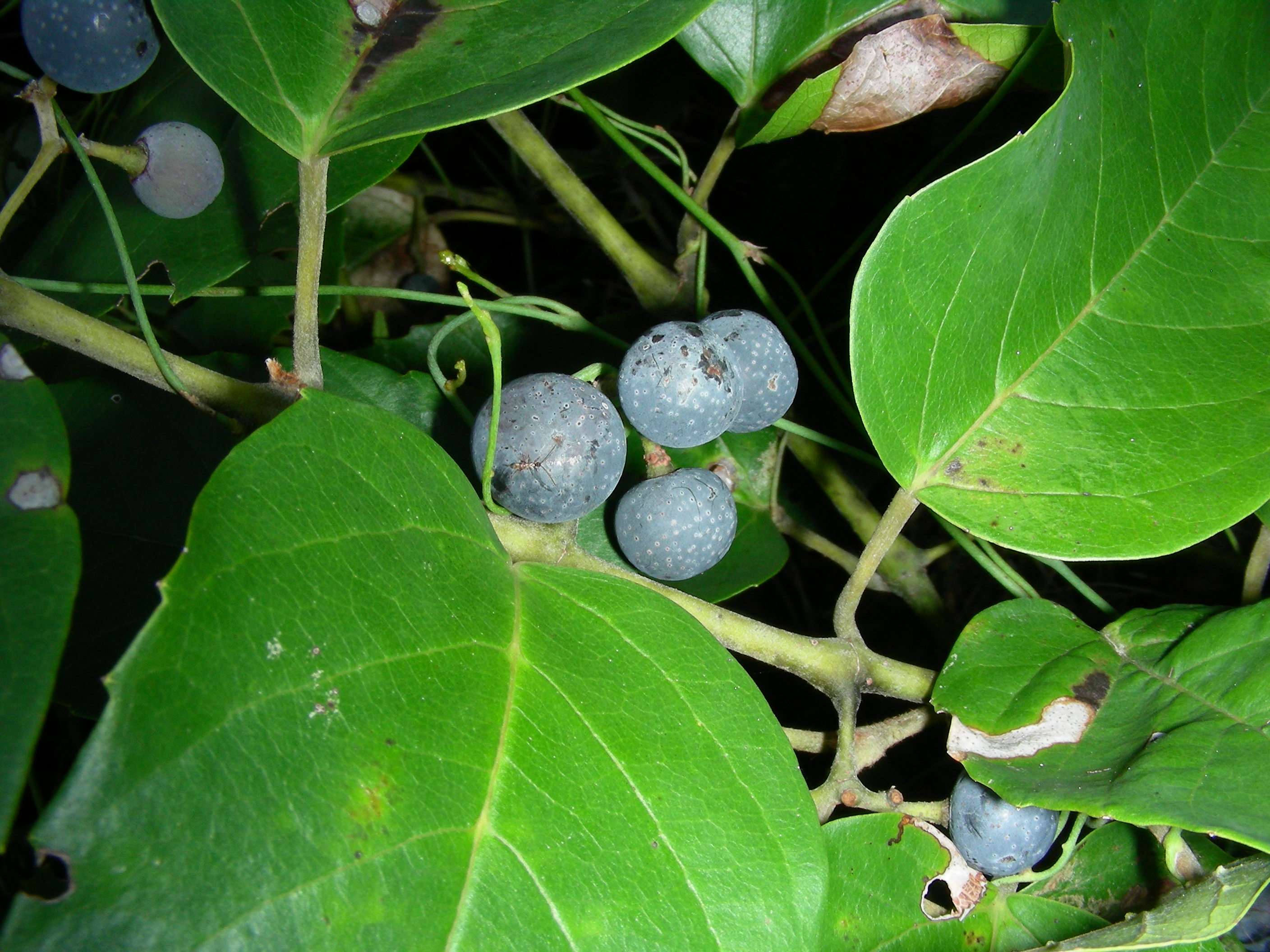 Fruits of Cissus antarctica, Bouddi National Park, Australia